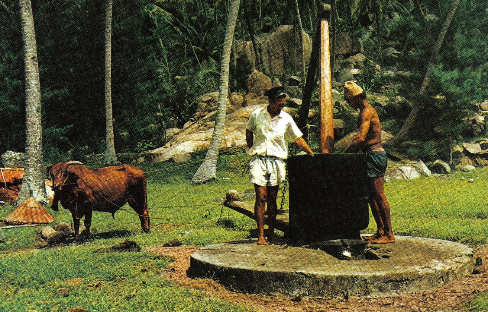 Traditional bullock-powered coconut oil mill. Dried coconuts are crushed and oil is squeezed out.